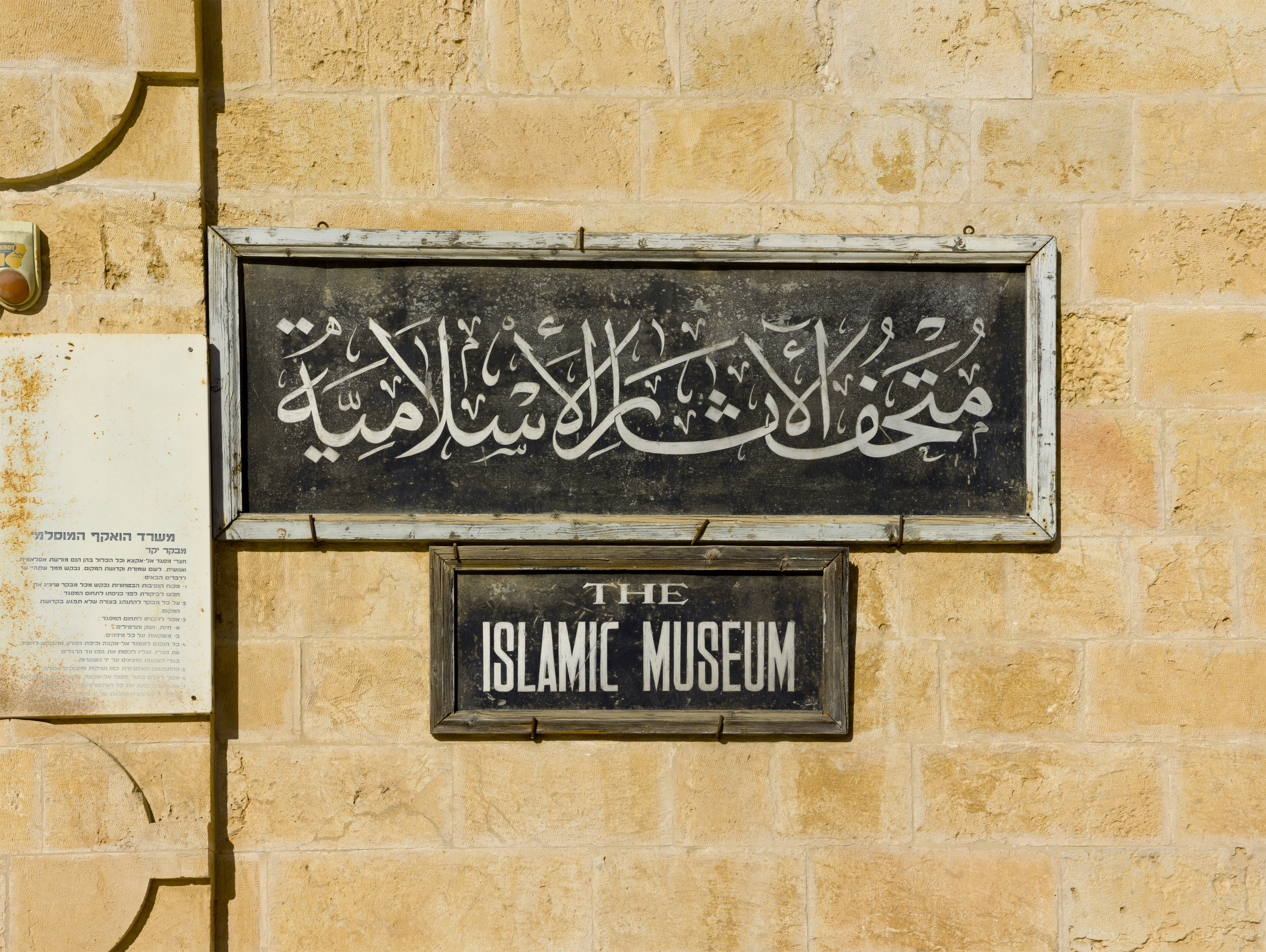 Islamic Museum (sign)